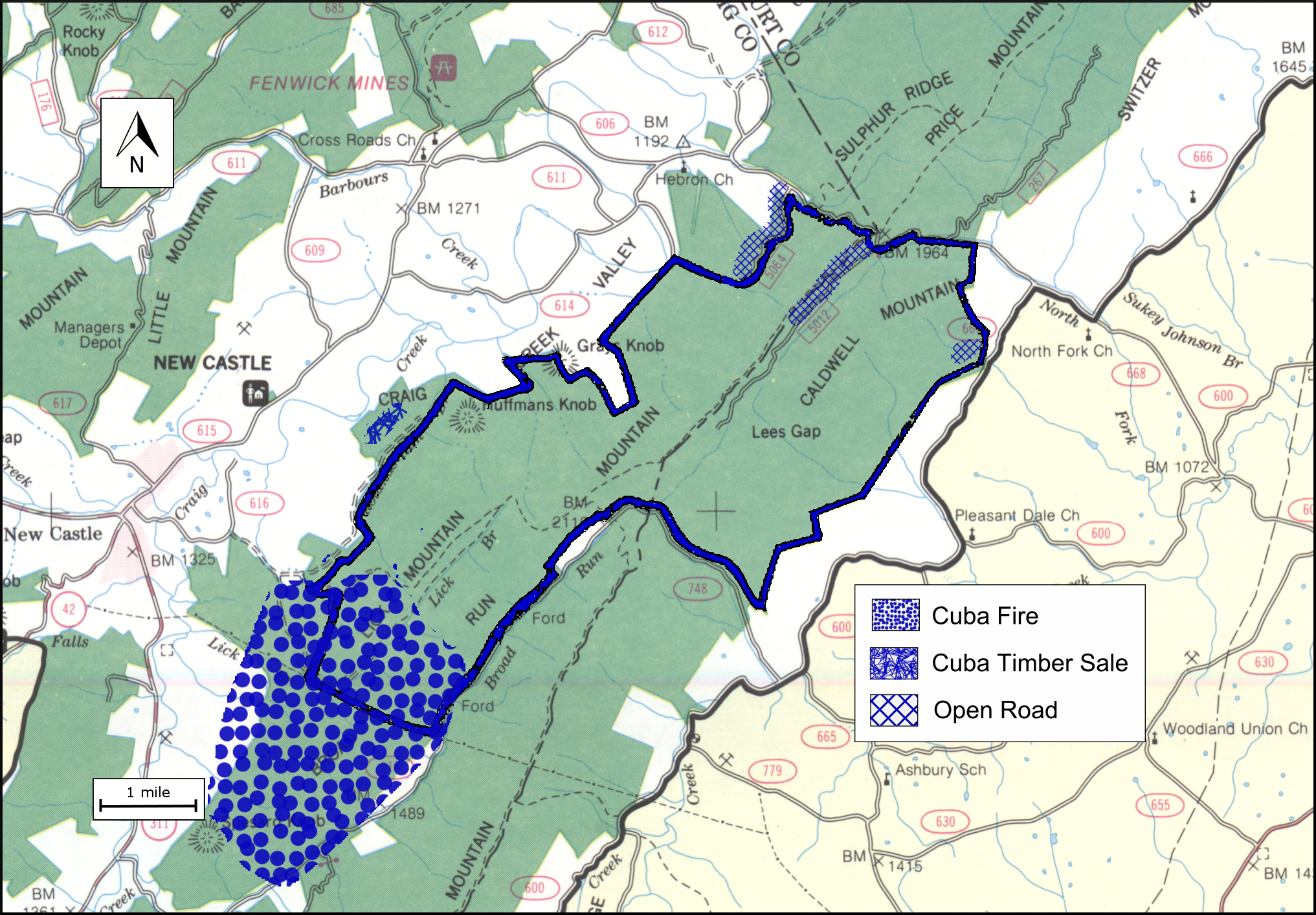 Boundary of Broad Run wildland in Jefferson Forst